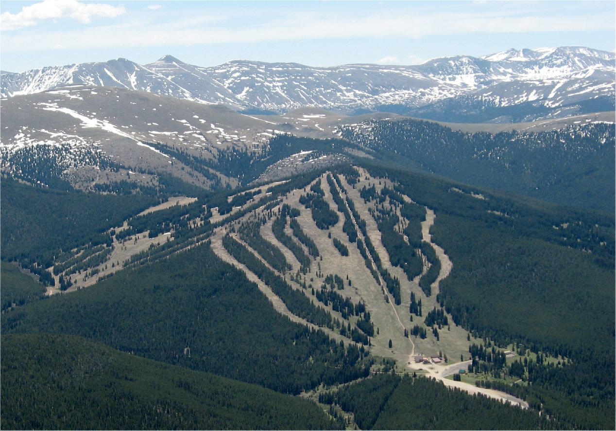 An Aerial view of Ski Cooper, an alpine ski resort in Colorado, USA.